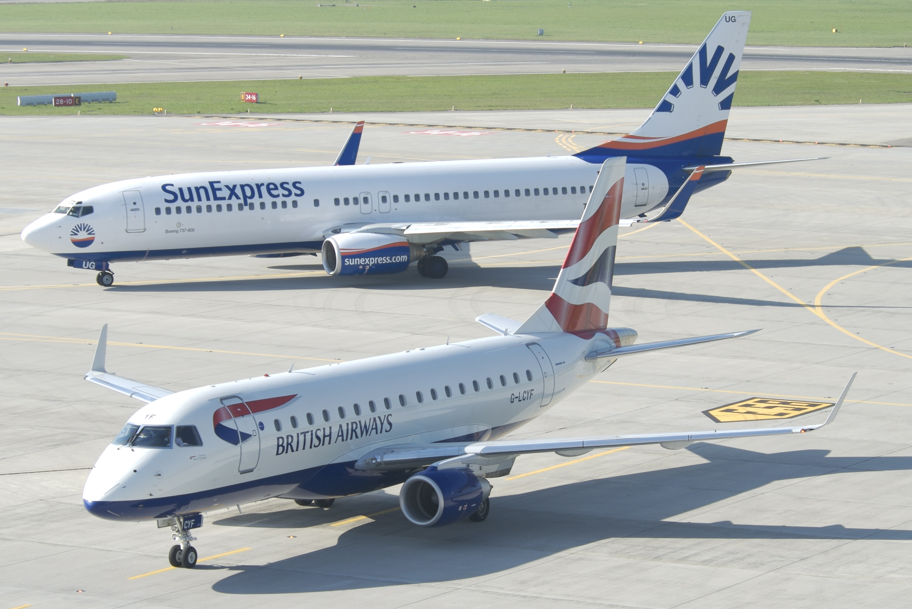 British Airways Embraer ERJ-170; G-LCYF@ZRH;22.09.2010/586bh